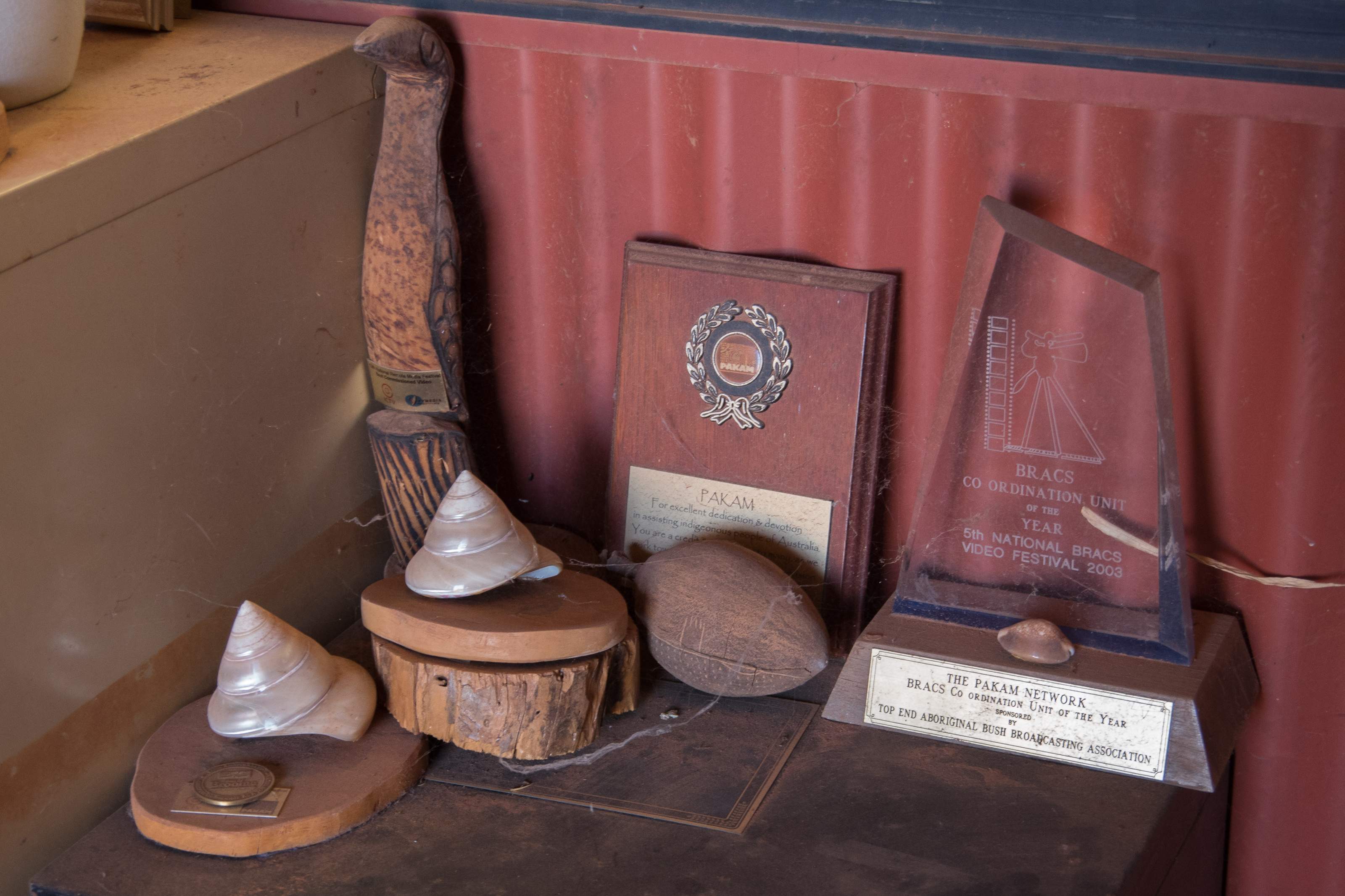 WMAU GLAM Peak Broome - awards